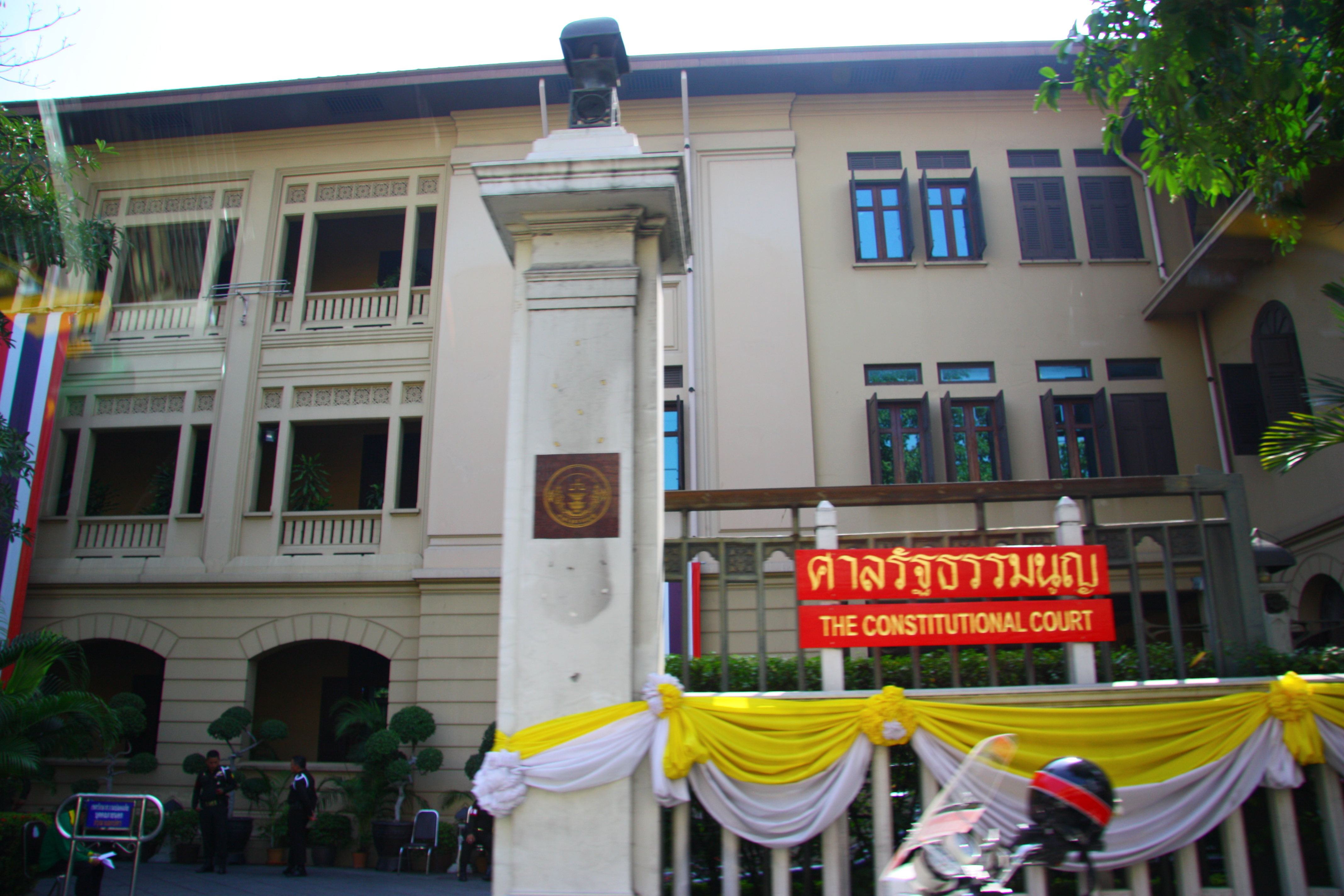 The fermer seat of the Constitutional Court of Thailand, located at Lord Rattanathibet's Mansion, No. 326, Thanon Chak Phet, Khwaeng Wang Buraphaphirom, Khet Phra Nakhon, Bangkok.